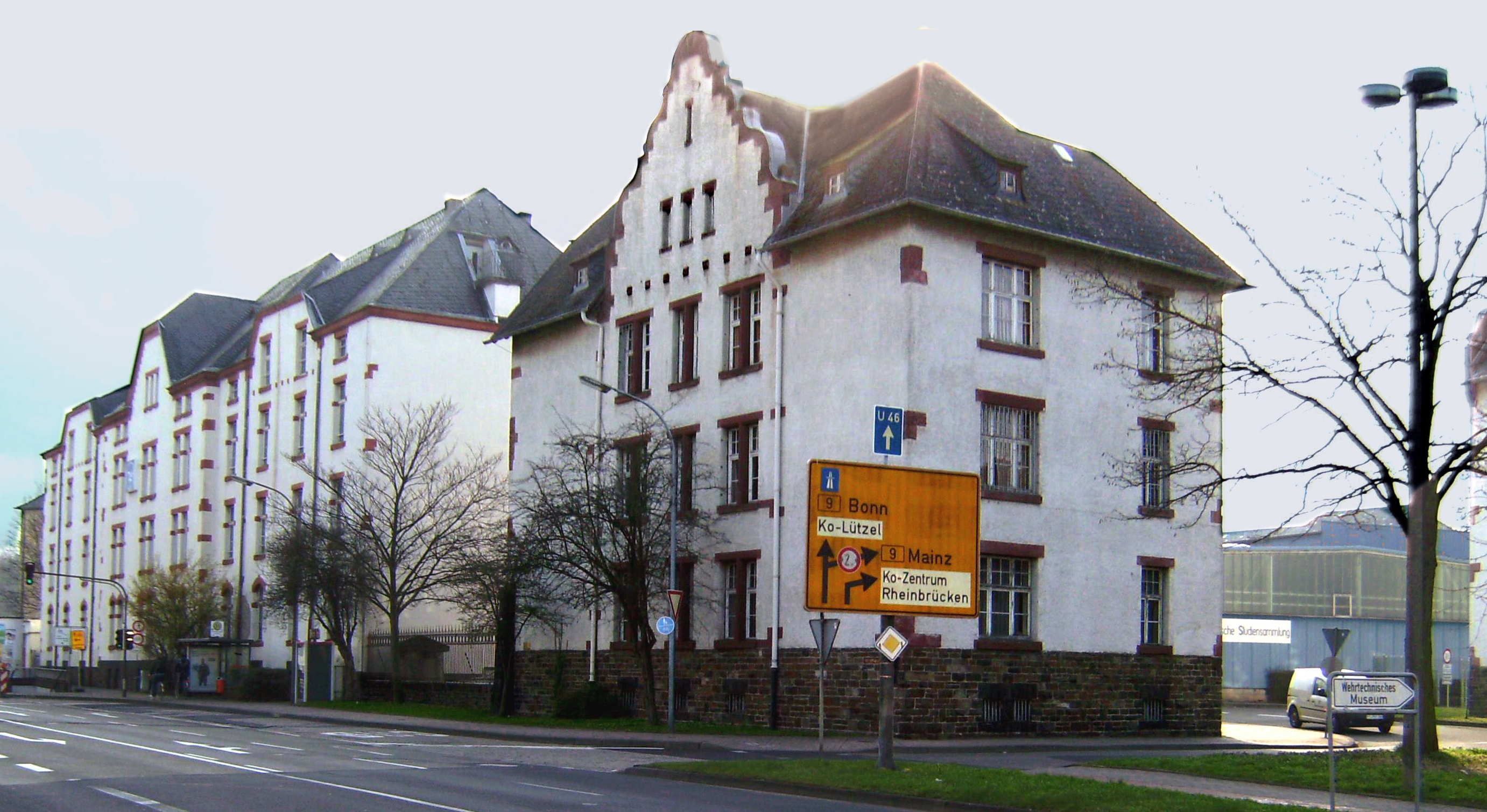 Langemarck barracks in Koblenz